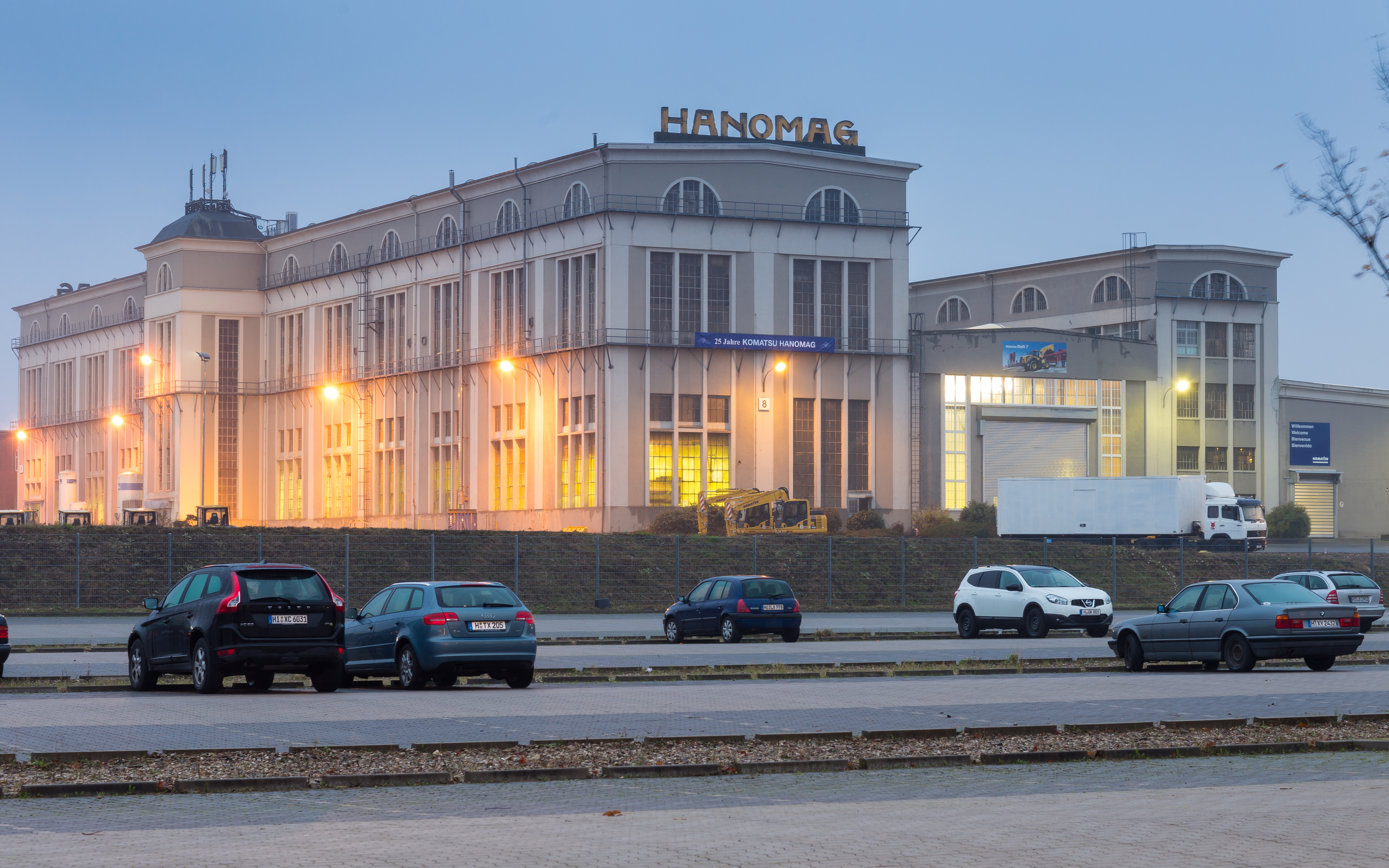 Former factory hall of former Hanomag company, errected 1922/23 for the production of plows and tractors. The building is nowadays used by successor company Komatsu (Japanese) to produce construction machines. The factory hall is located at Hanomagstrasse in Linden-Sued district of Hanover, Germany.